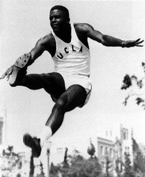 Photo of Jackie Robinson in his ATM track uniform. This is a photo taken by a staff photographer of LOOK Magazine, and is part of the LOOK Magazine Photograph Collection at the Library of Congress. Their former owner, Cowles Communications, Inc, dedicated to the public all rights it owned to these images as an instrument of gift. This license does not apply to pictures from the collection which were not taken by the magazine's own photographers. The image used is slightly cropped, eliminating portions of the top and bottom of the original image in LOOK Magazine.